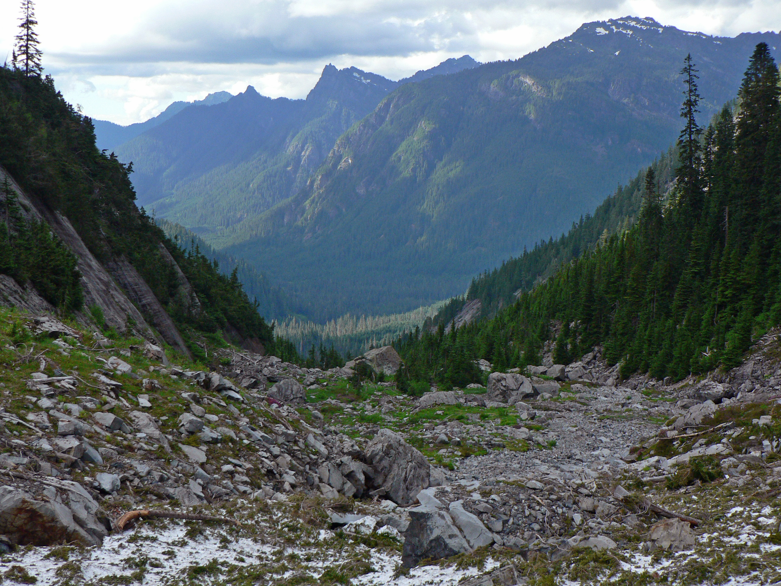 Stillaguamish River (South Fork) Valley, Dickerman Mountain (5723 feet, upper right)